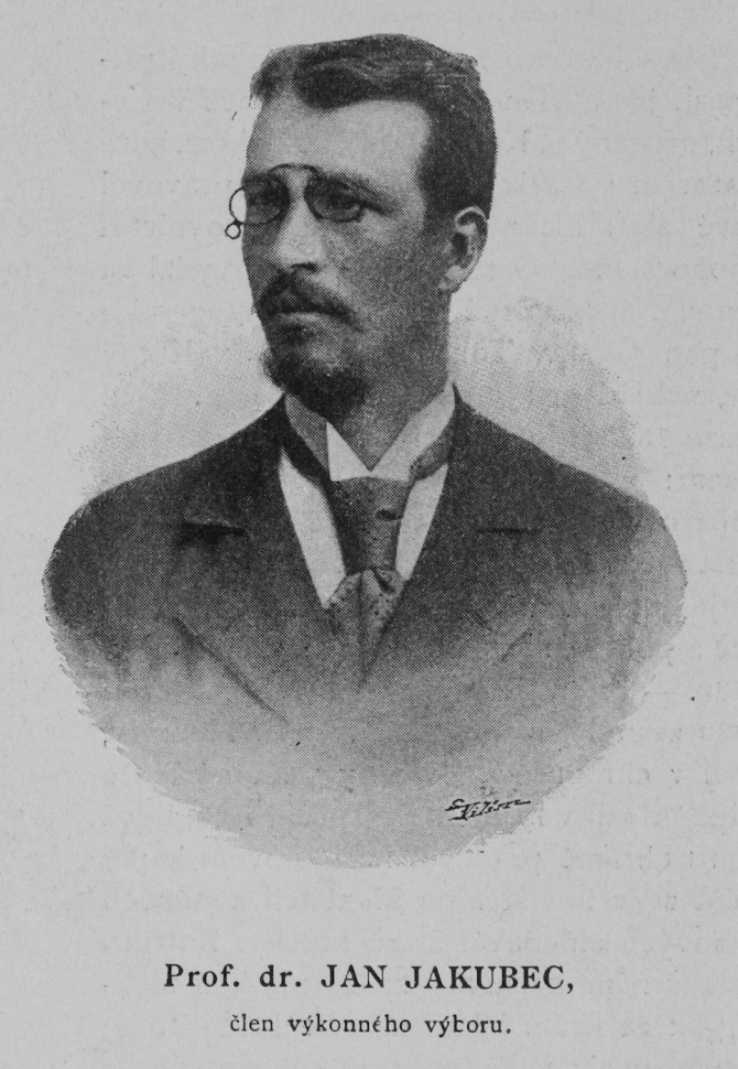 Portrait of Jan Jakubec (1862 - 1936), Czech literary historian and critic. The picture shows him as a member of executive committee of Czech & Slavonic Ethnographic Exhibition in Prague 1895.